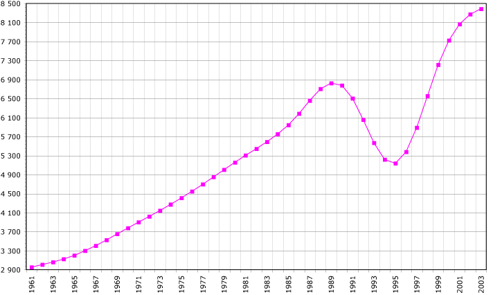 Rwanda's population (1961-2003). Y-axis : Number of inhabitants in thousands.